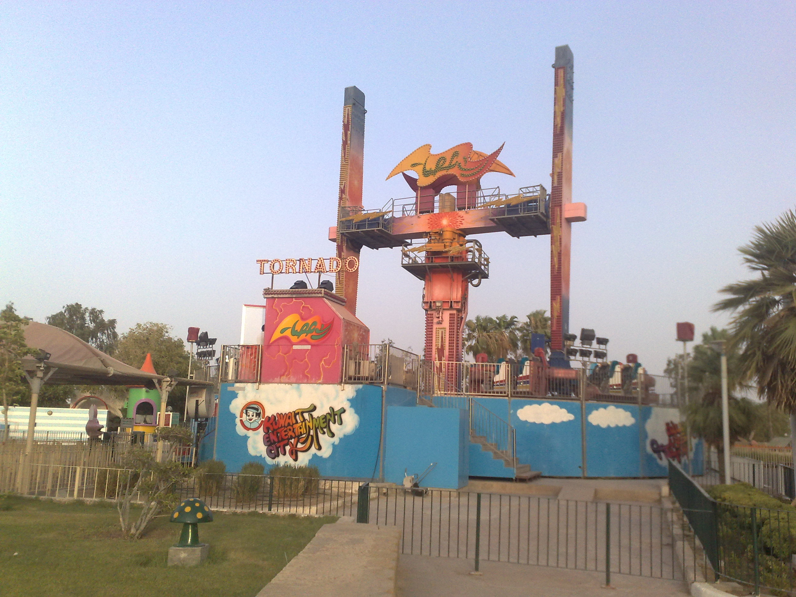 This a ride in the entertainment City, it is called the Torando.